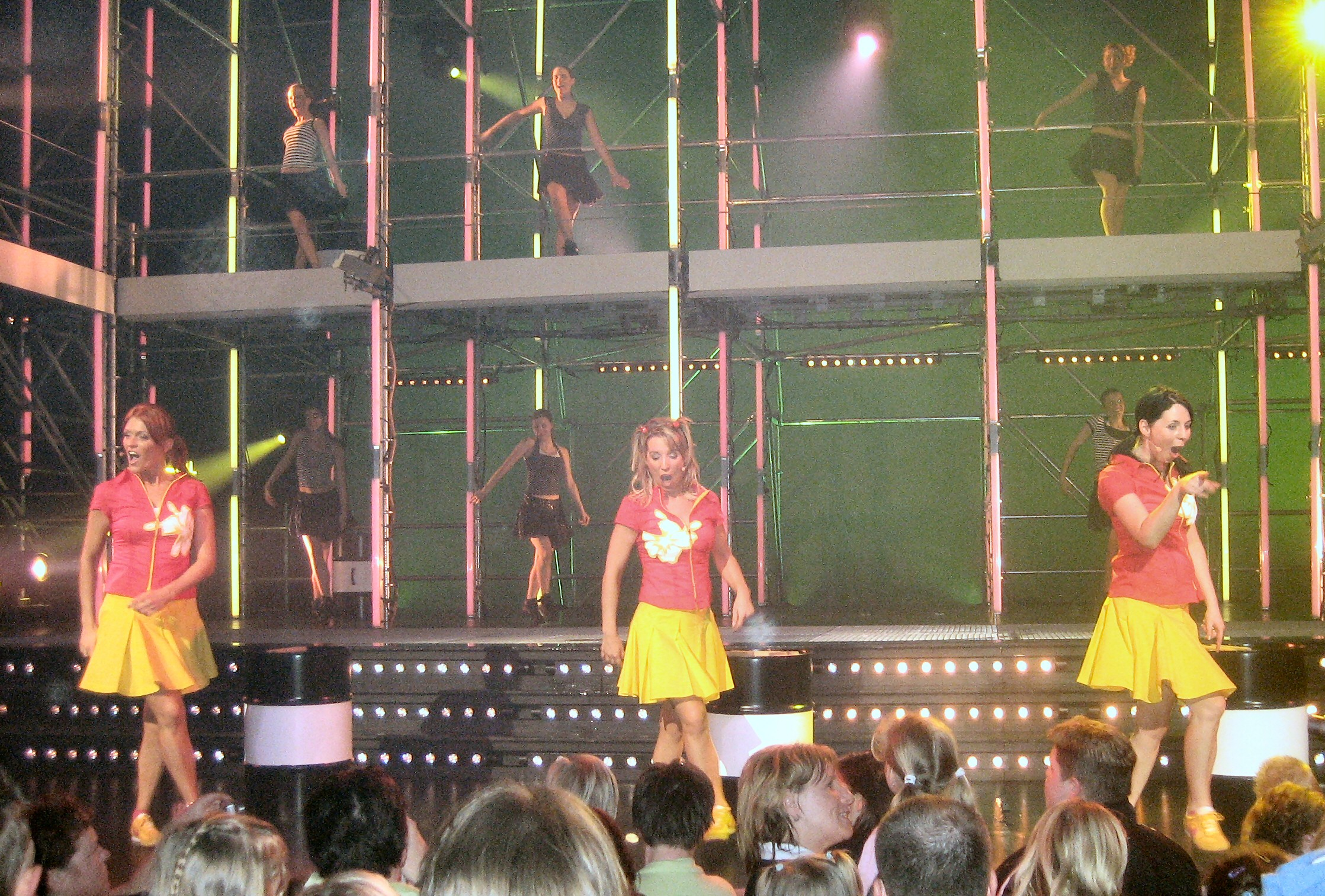 K3 performance, 8 April 2006, Grenslandhallen, Hasselt, Belgium